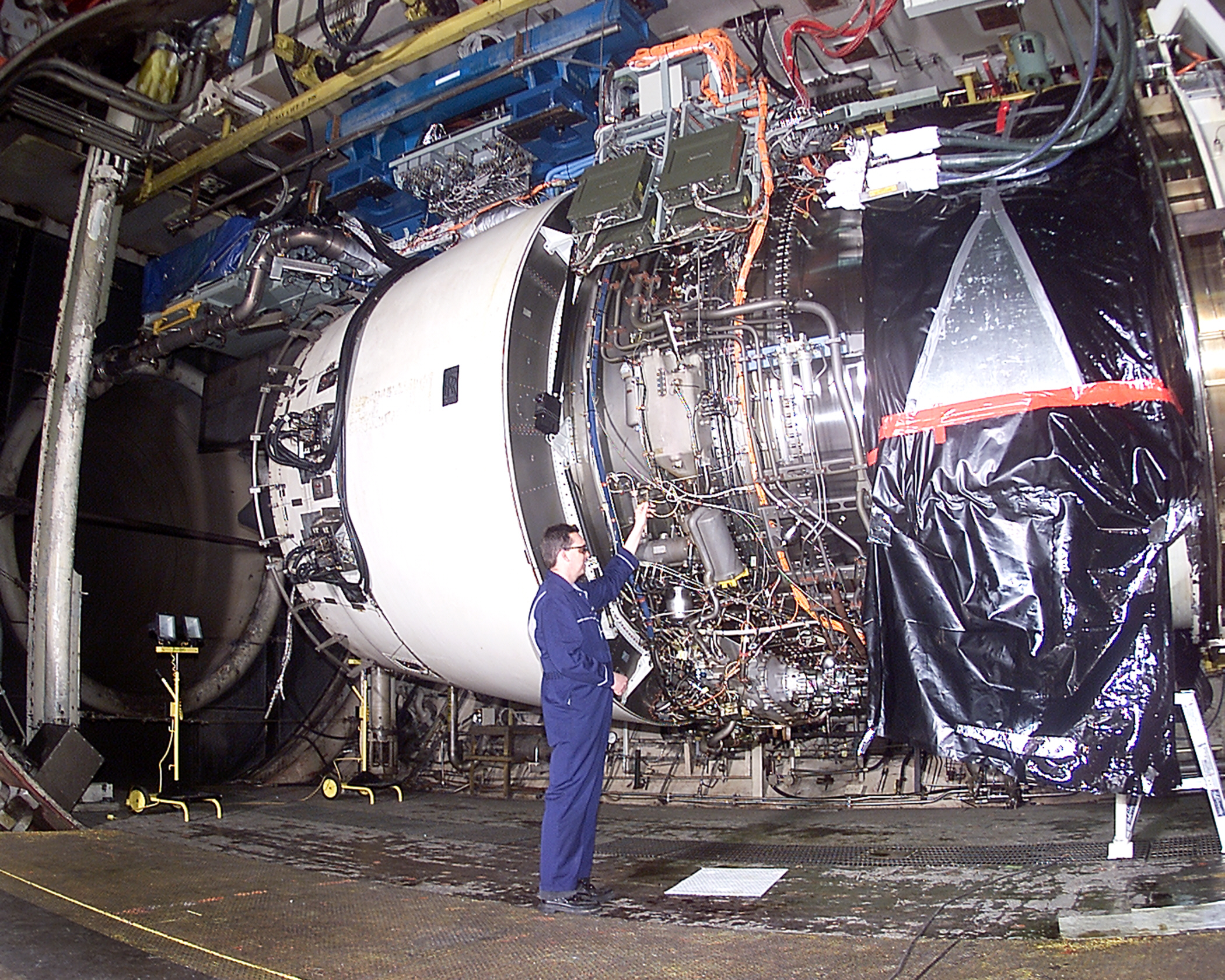 Rolls-Royce Fitter, Jeremy Galland, checks instrumentation on the Trent 900 engine for testing in the Arnold Engineering Development Center’s (AEDC) Aeropropulsion Test Facility. The engine, selected as a powerplant for the Airbus A380 passenger aircraft, underwent engine operability and performance and icing testing.